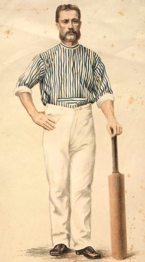 Lithograph of Charles Bannerman (1851–1930), Australian cricketer